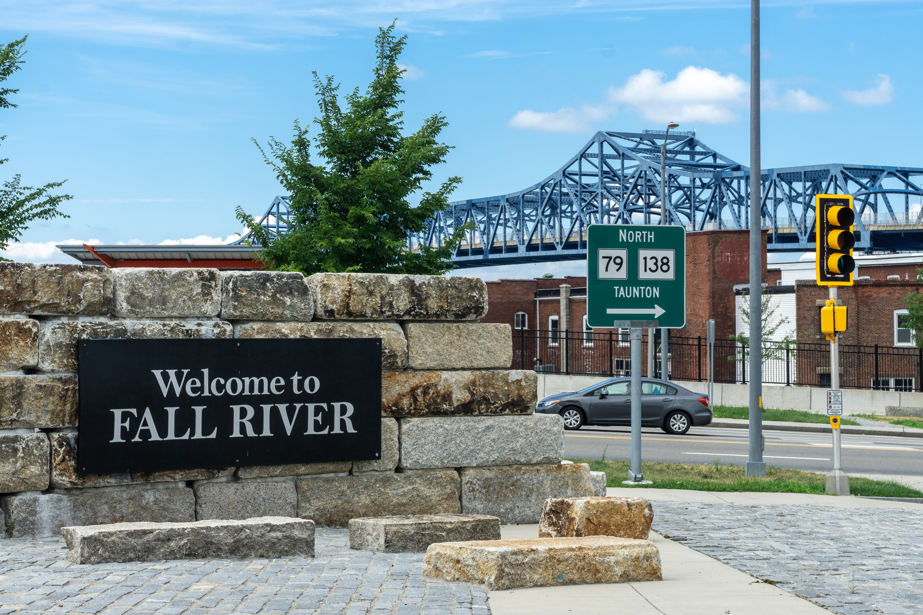 Sign says "Welcome to Fall River" with the Braga Bridge behind it.